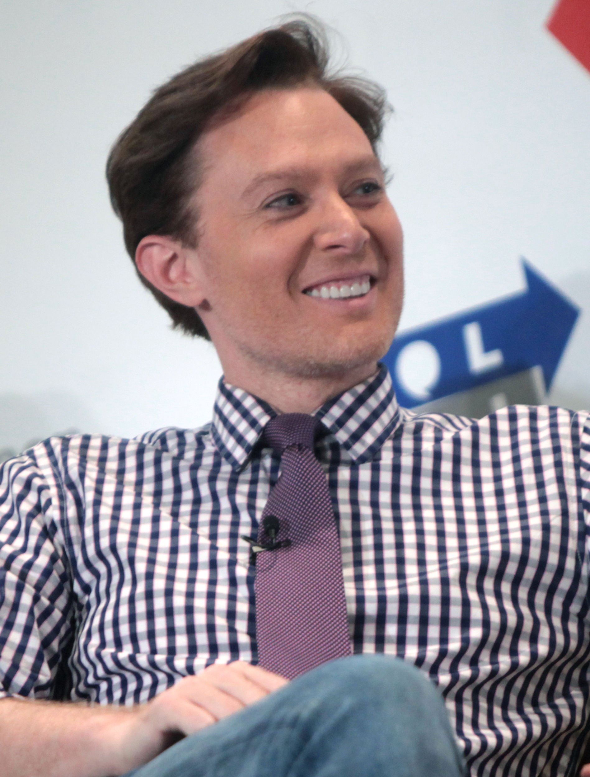 Clay Aiken speaking at Politicon in Pasadena, California.